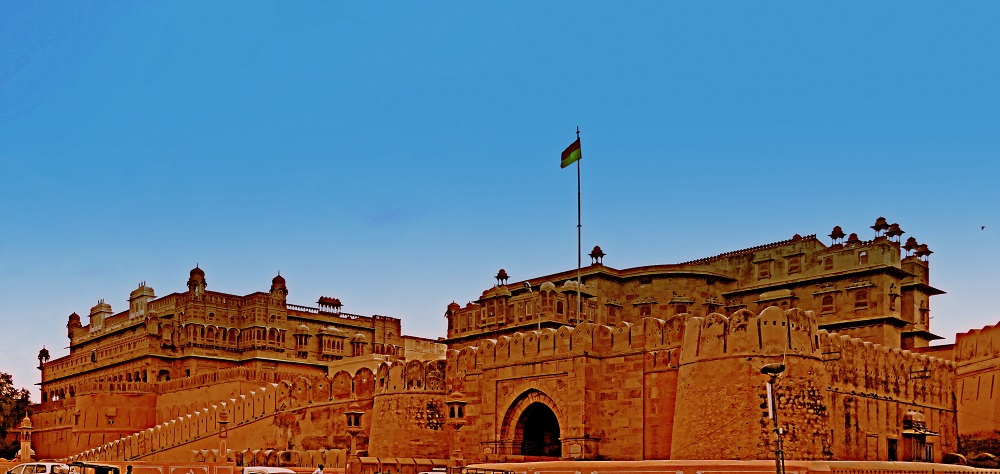 Junagarh Fort of Bikaner. Formerly Chintamani Fort built under supervision of Karam Chand 1588-93